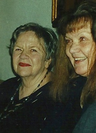 Ingrid Kreuzer (in the background) together with Doris Rosenstein, 1997